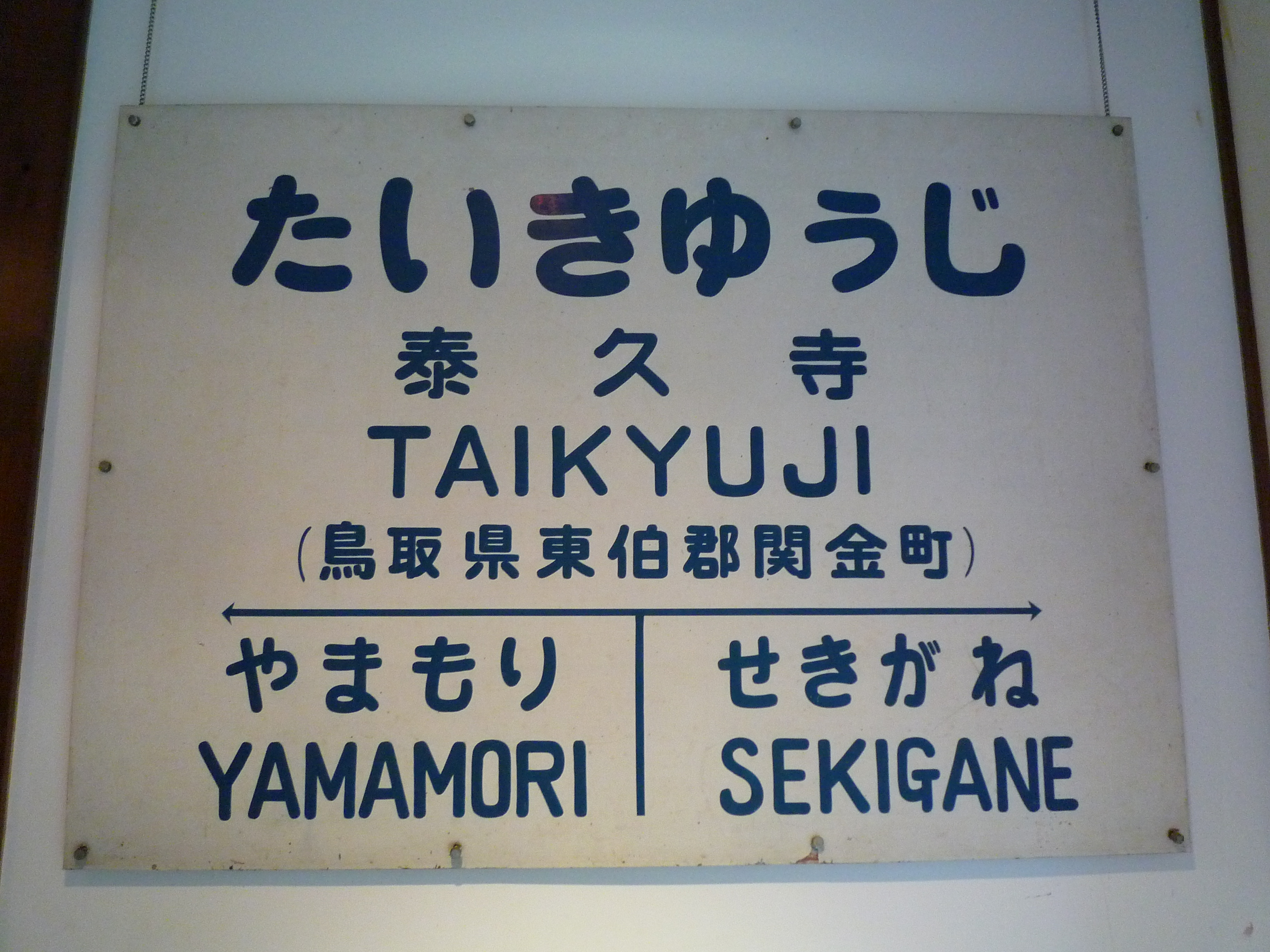 Taikyuji Station Name Board in Kurayoshi City (ex. Sekigane Town), Tottori Prefecture.